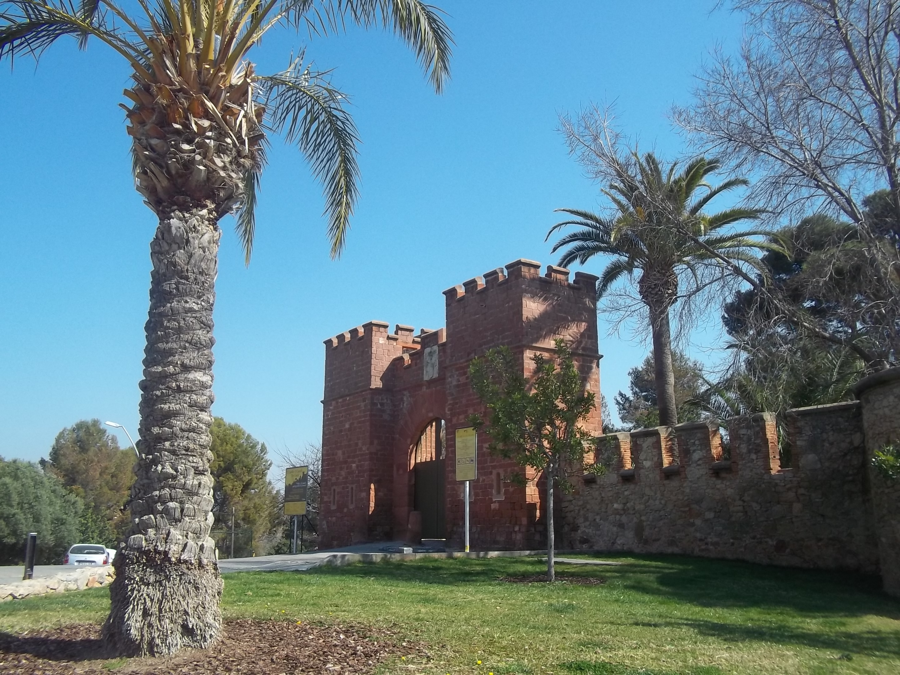 The castle of Castelldefels, Catalonia, Spain.